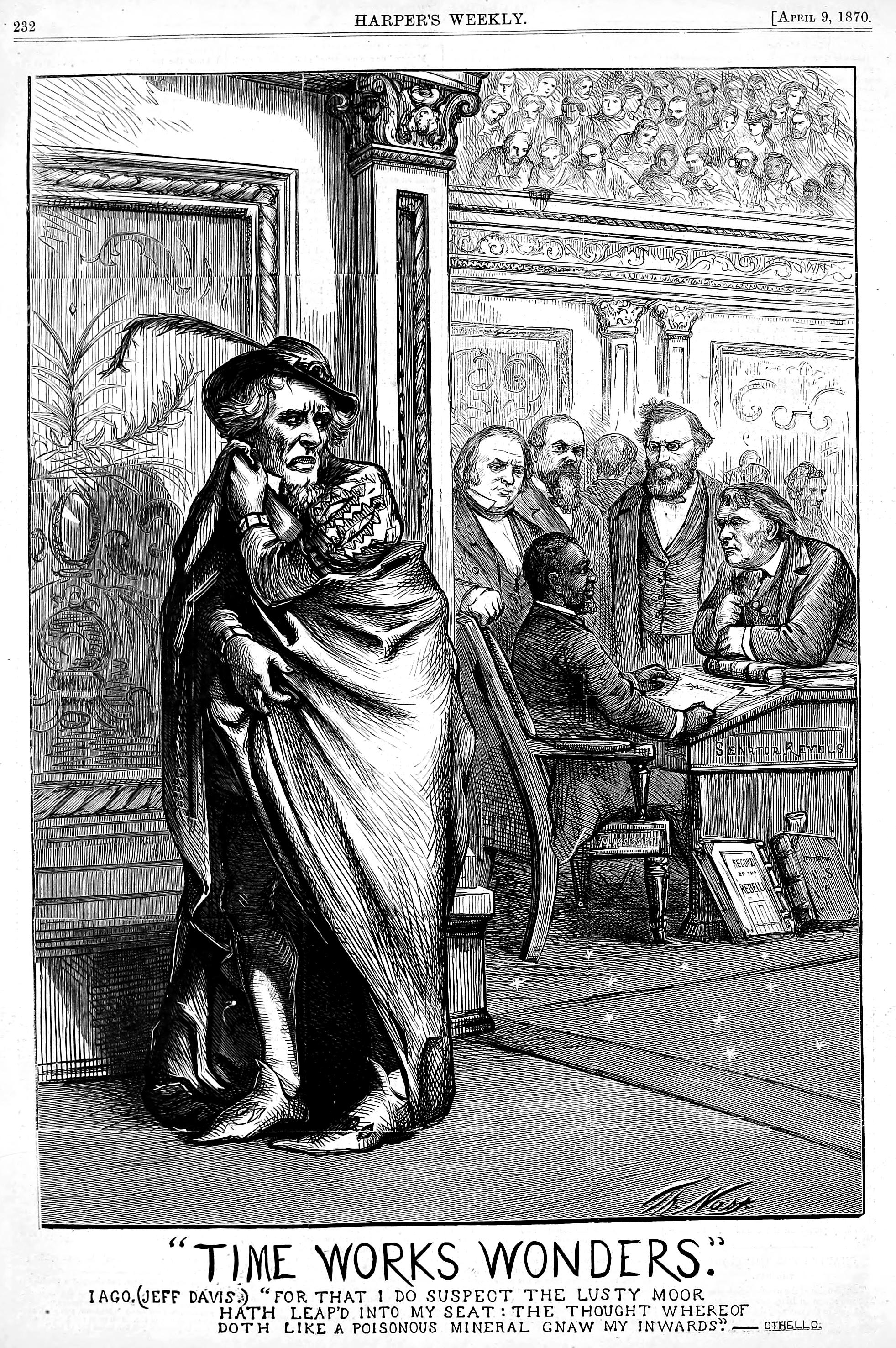 Drawing from Harper's Weekly (New York) April 9, 1870, page 232 showing Jefferson Davis (as Iago from Othello) and Hiram Revels.